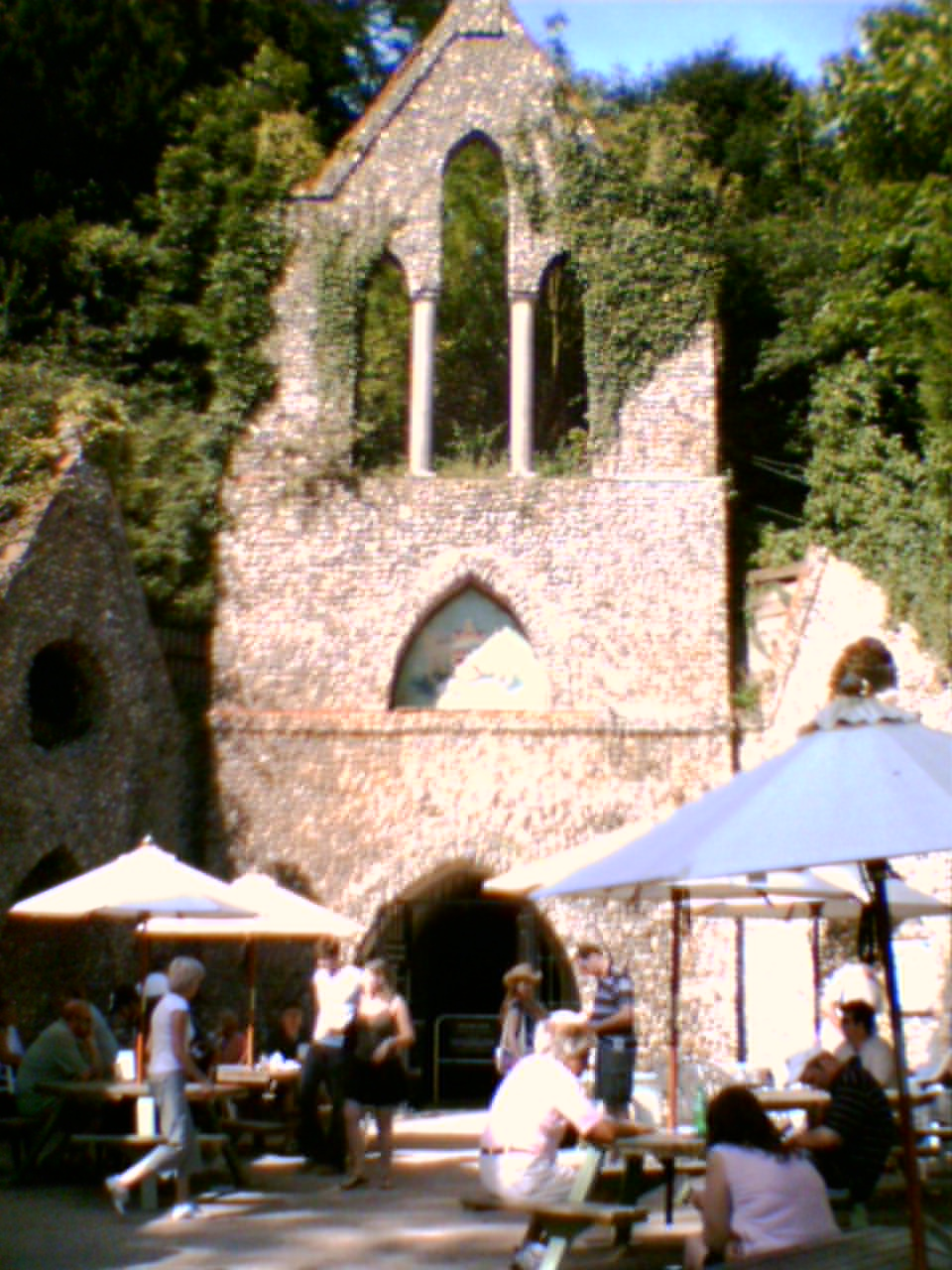 The Hellfire Club latterly met at The Hell-Fire Caves, West Wycombe, depicted here.